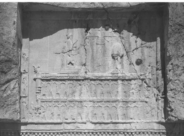 Top part of cross-like entrance at Darius the Great Tomb